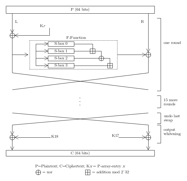 The Feistel structure of Blowfish